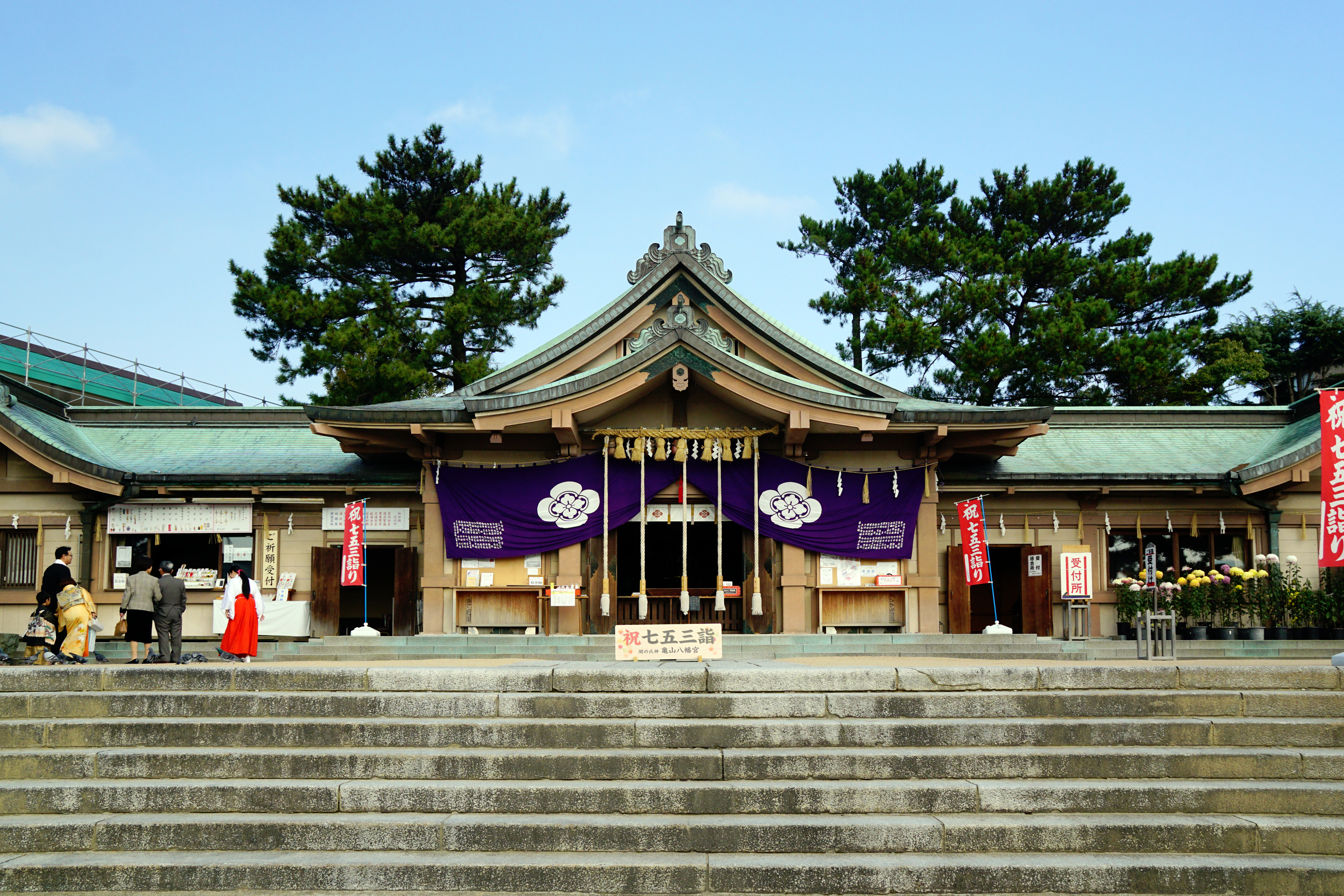 Kameyama Hachiman-gū in Shimonoseki, Yamaguchi prefecture, Japan.